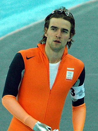 Mark Tuitert, the Netherlands, at the 2006 Winter Olympics in Torino.